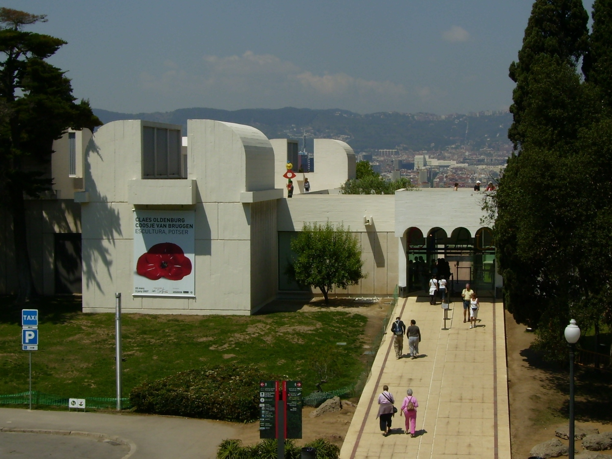 Fundació Joan Miró - Barcelona (Catalonia)